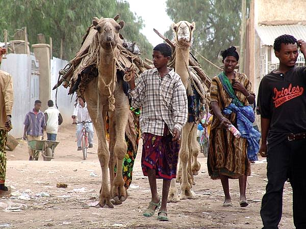 Street scene in Jijiga, Ogaden. Image taken by Charles Fred on flickr. The creator has granted GFDL licensing and permission for use in the wikimedia project.